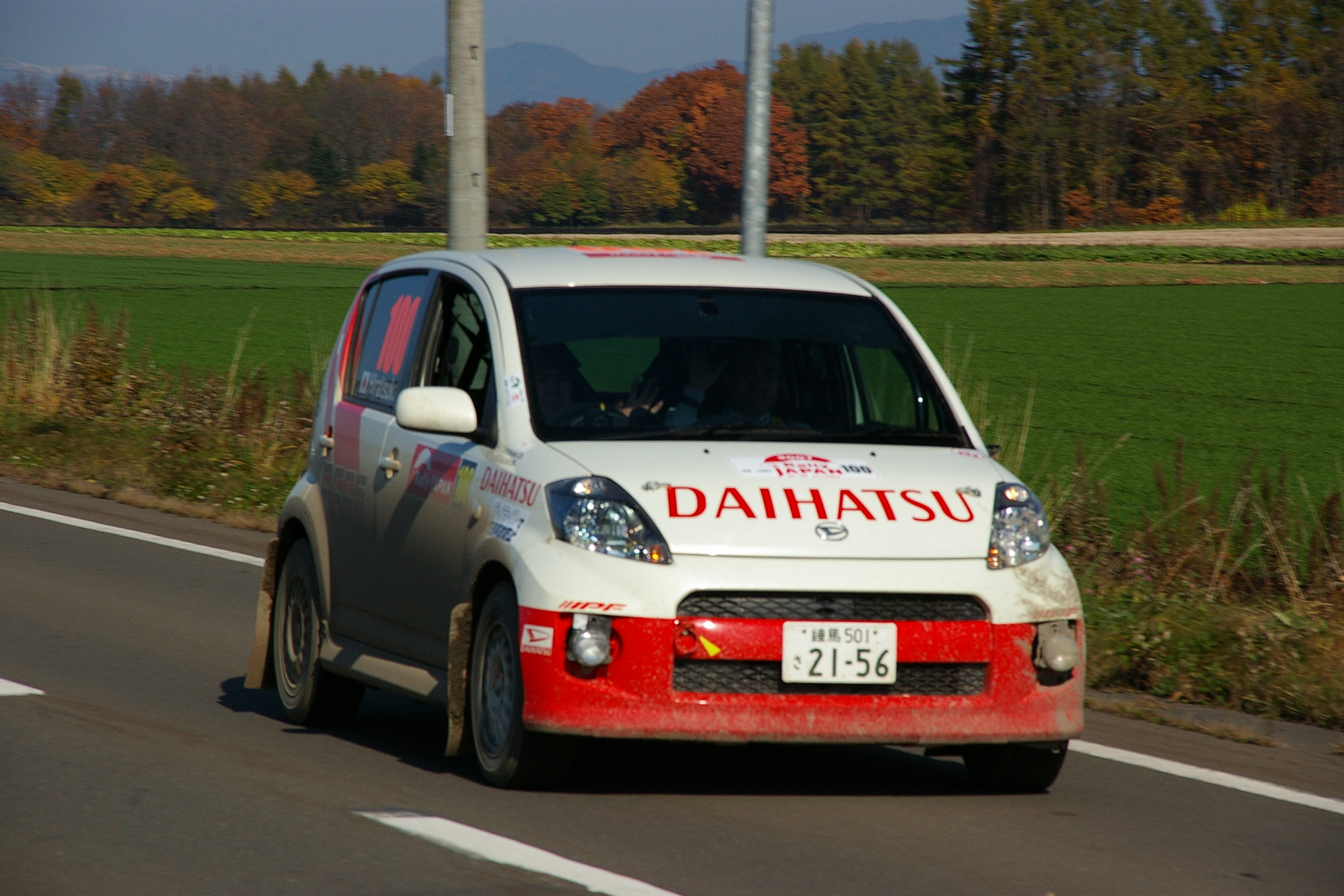 Daihatsu BOON Rally car in Rally Japan 2007.